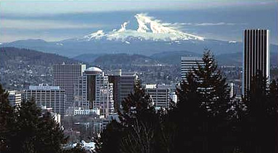 The skyline of Portland, Oregon with Mount Hood in the background.